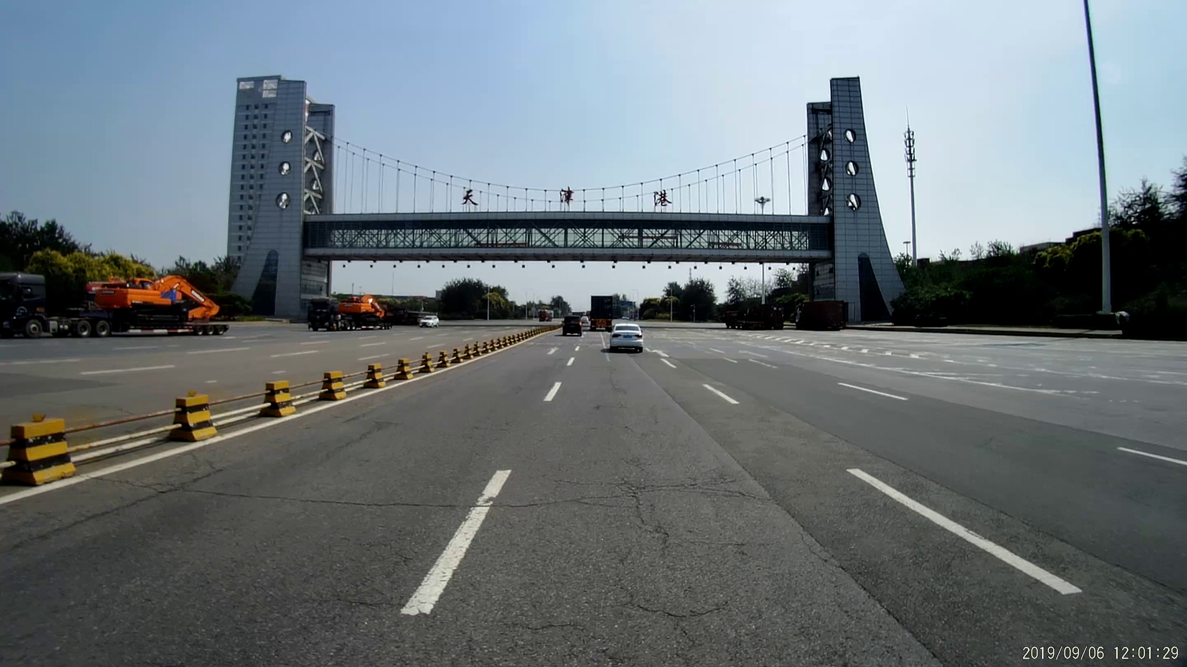 天津港——门头